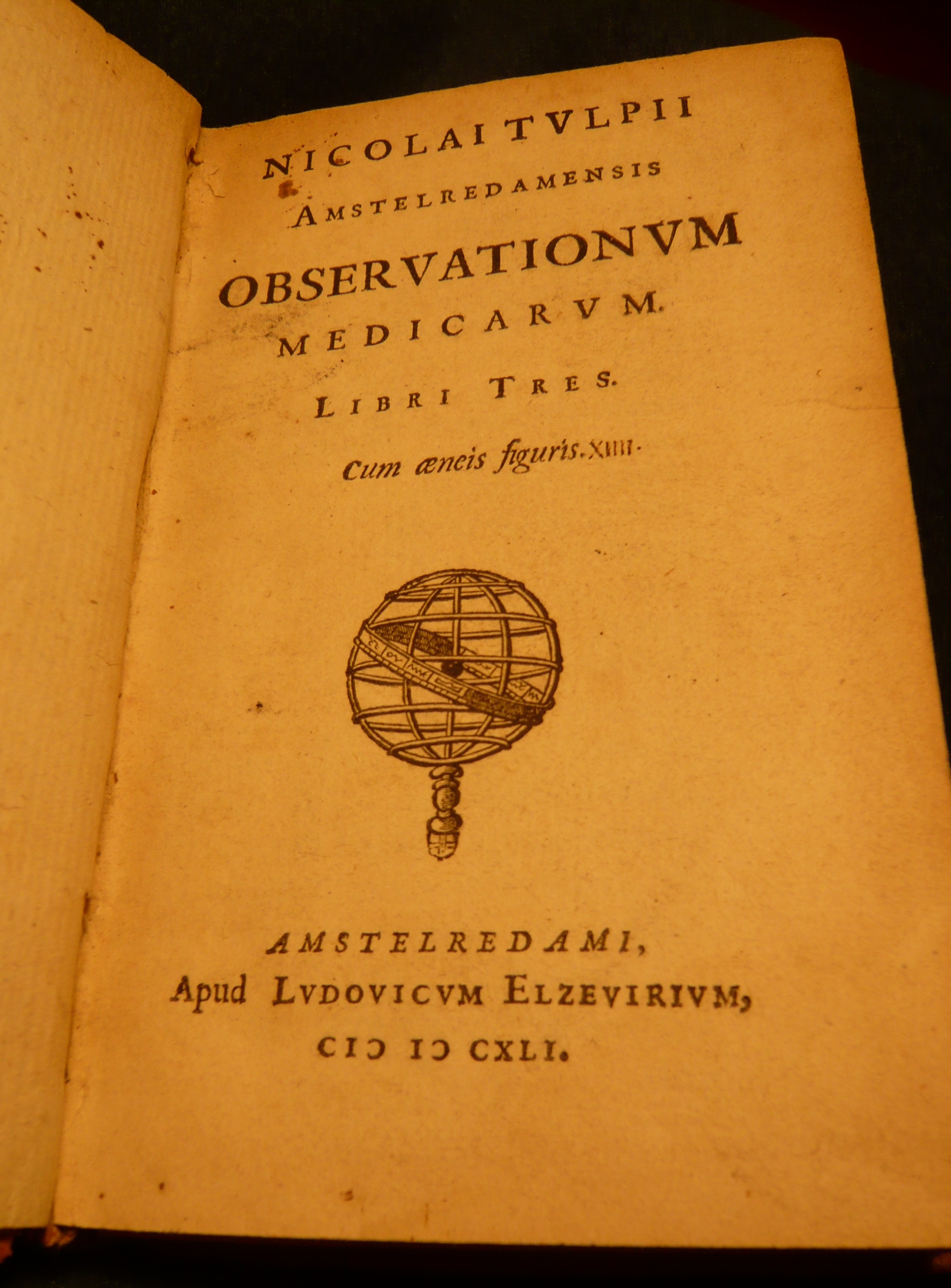 Nicolai Tulpii Amstelredamensis Observationes Medicae, 1641, title page from book printed in 1641 by Nicolaes Tulp. Nicolai Tulpii Amstelredamensis Observationum medicarum libri tres. Cum aeneis figuris.XIIII Amstelredami apud Ludovicum Elzevirium CIC IC CXLI Date (2nd & 3rd "C" turned backwards) to be read as M - D - CXLI = 1641, three years before Rene Descartes published his "Principia Philosophiae" with Lodewijk Elzevir